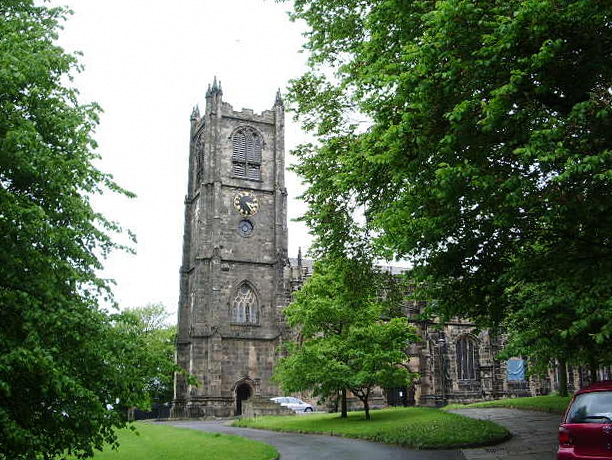 Photograph